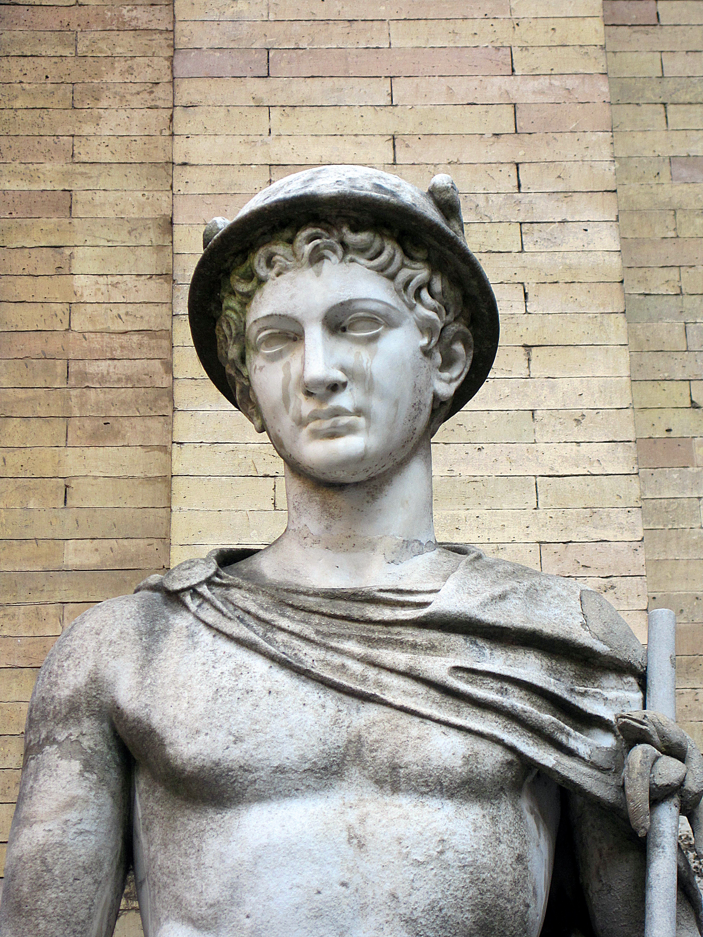 Hermes statue (detail) exhibited in the Museo Pio-Clementino (Vatican Museums).